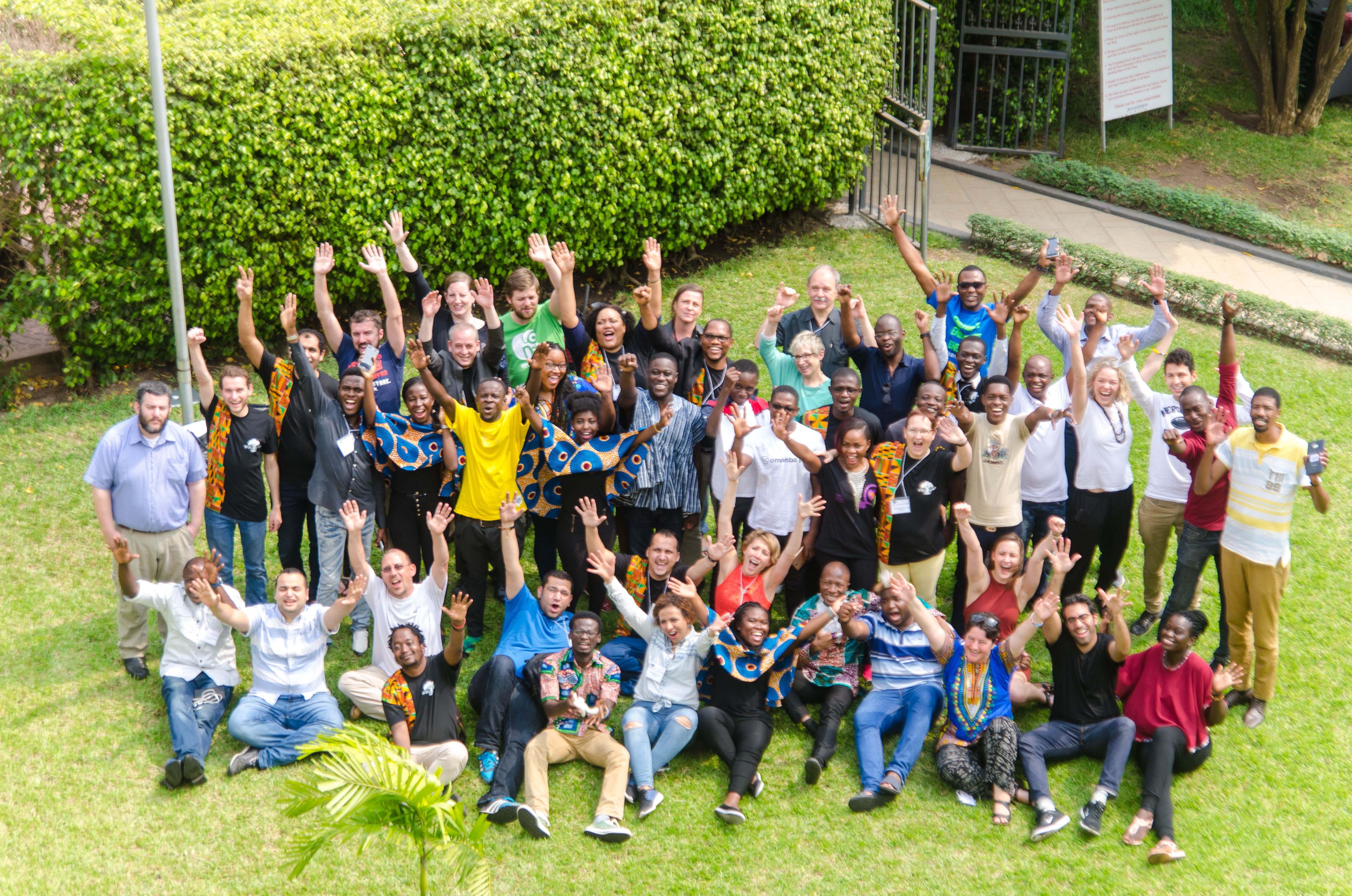 Wikiindaba17